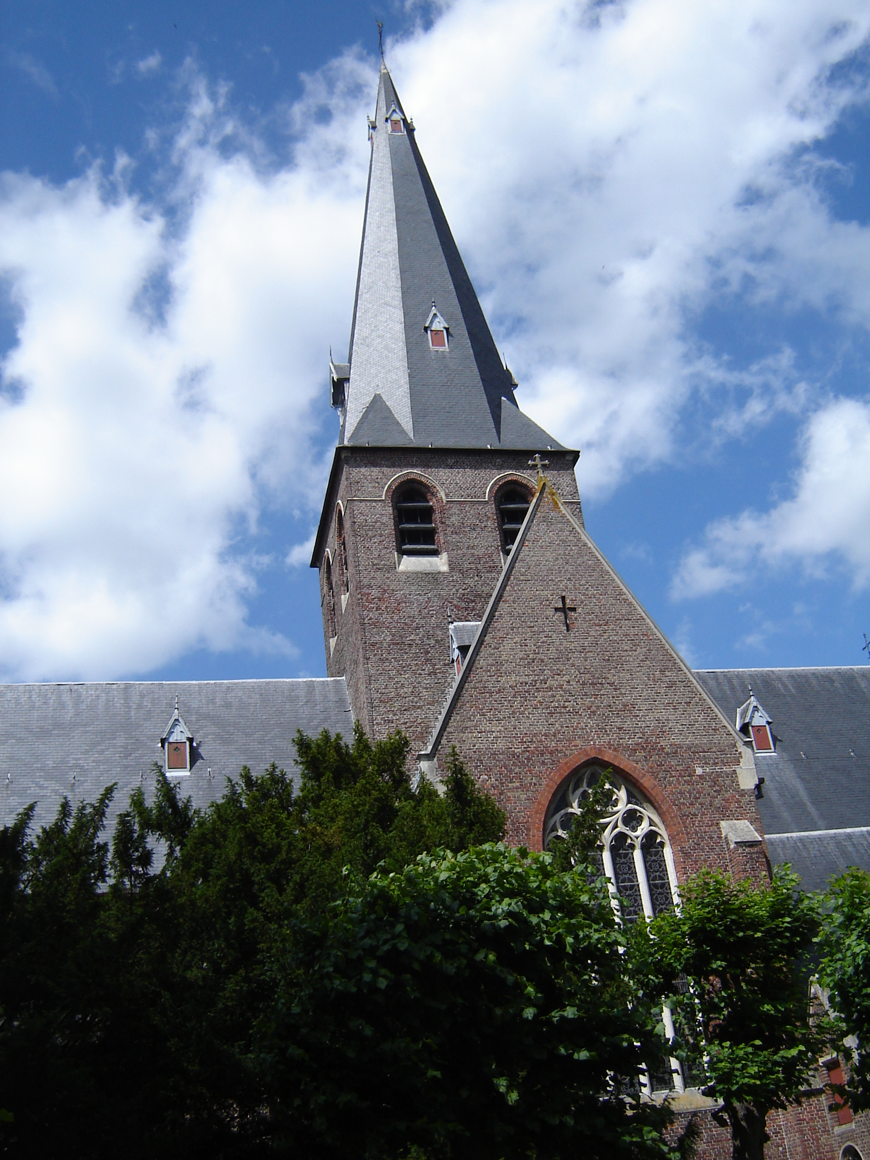 Church of the Nativity of Mary in Vivenkapelle. Vivenkapelle, Damme, West Flanders, Belgium